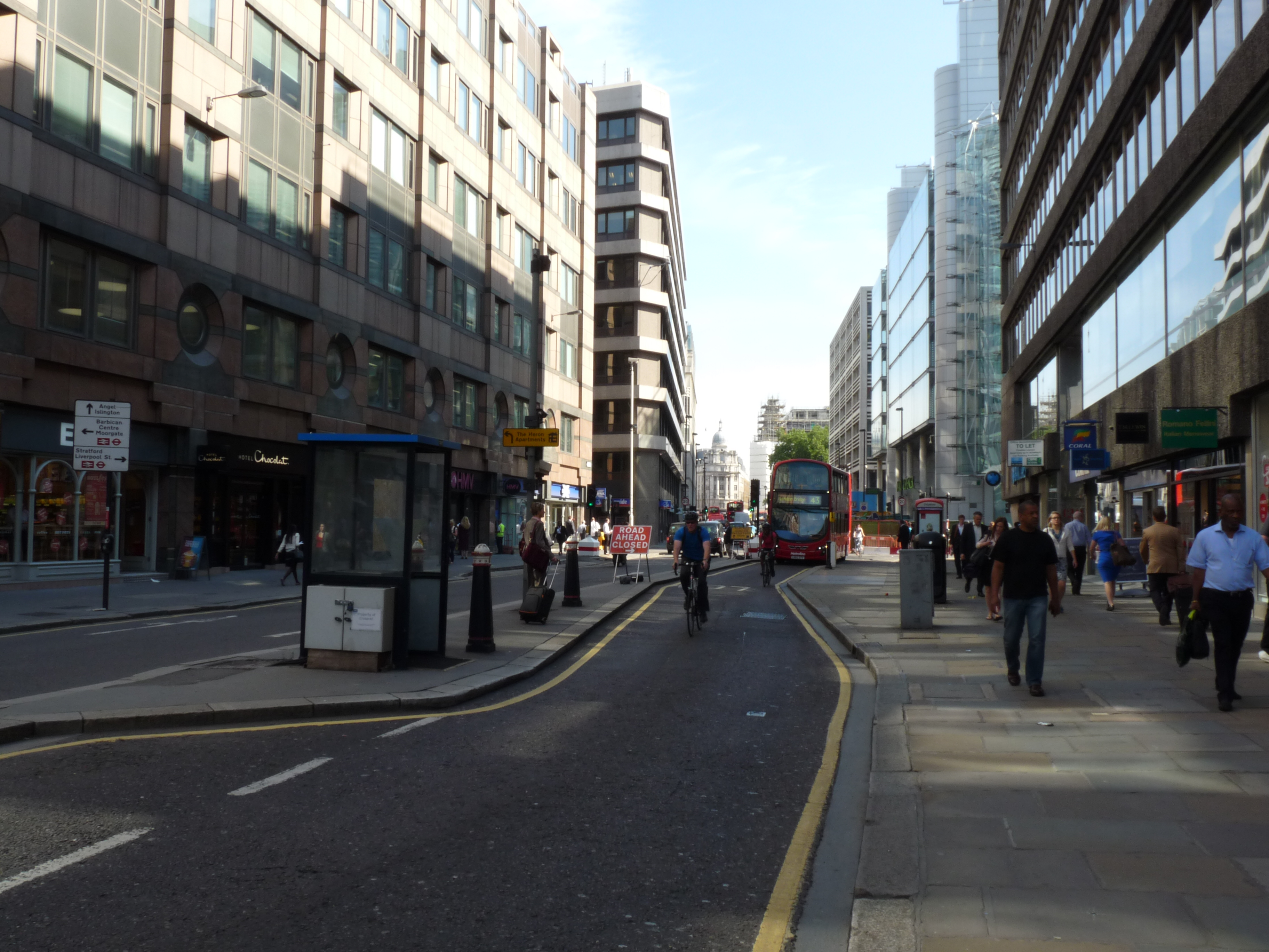 Illustration of the walking routes to Wikimania 2014, this image shows the route between Moorgate Station and Travelodge London Central City Road and UK's offices in Development House. This also illustrates one of the checkpoints for the Ring of Steel.